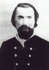 2LT James Moore Fleming, of Co. K, 33rd Alabama Infantry, from Elba, Alabama.